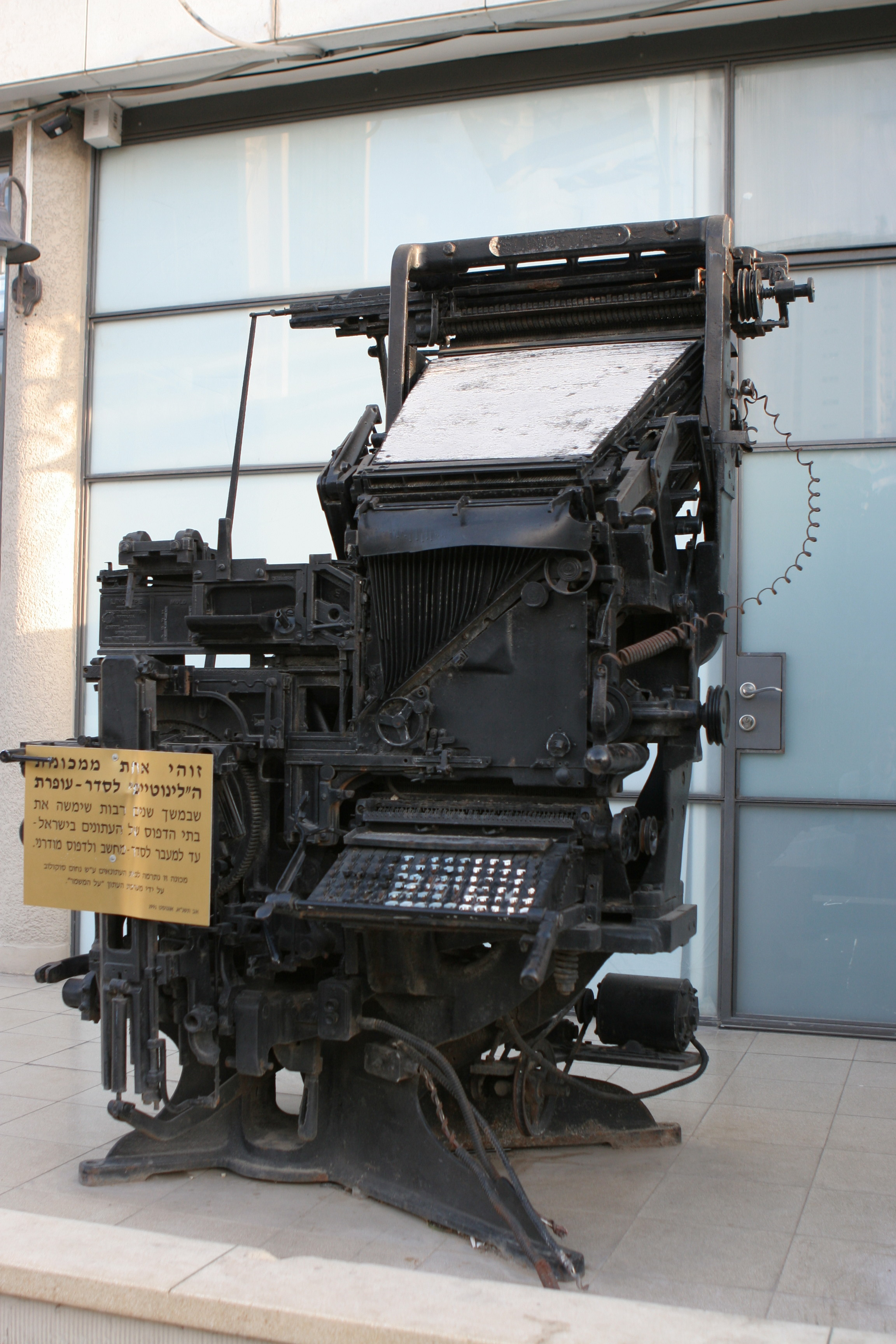 set-up type machine used by the Israeli Newspapers